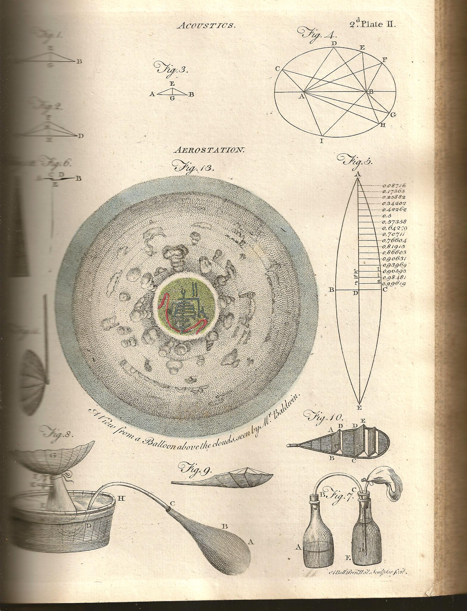 scan of first color plate ever used in Britannica, 214 years ago in 1797